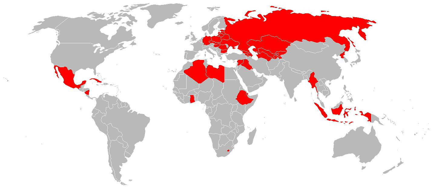 World map of Mil Mi-2 operators